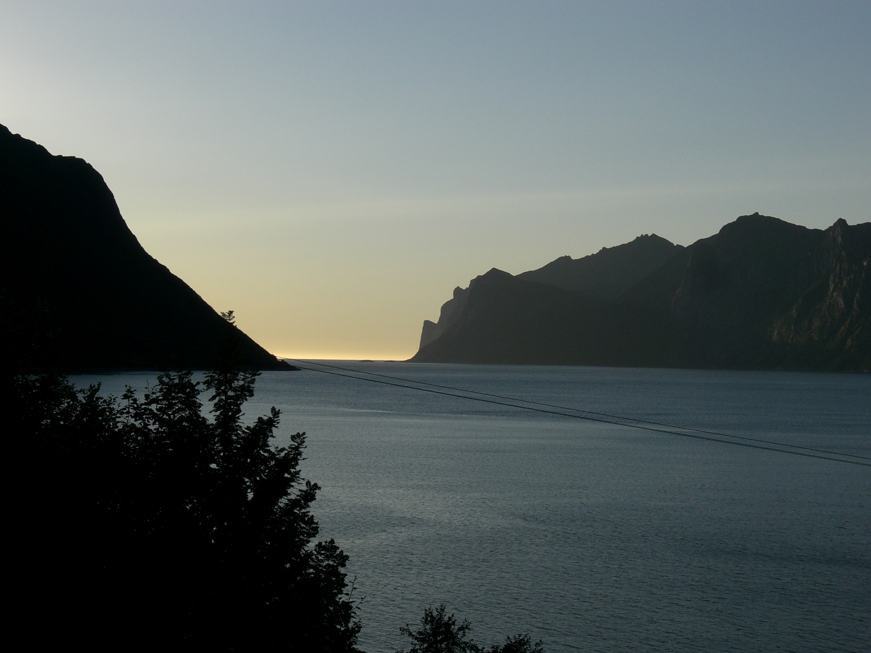 Lavollsfjorden. Senja island, Norway